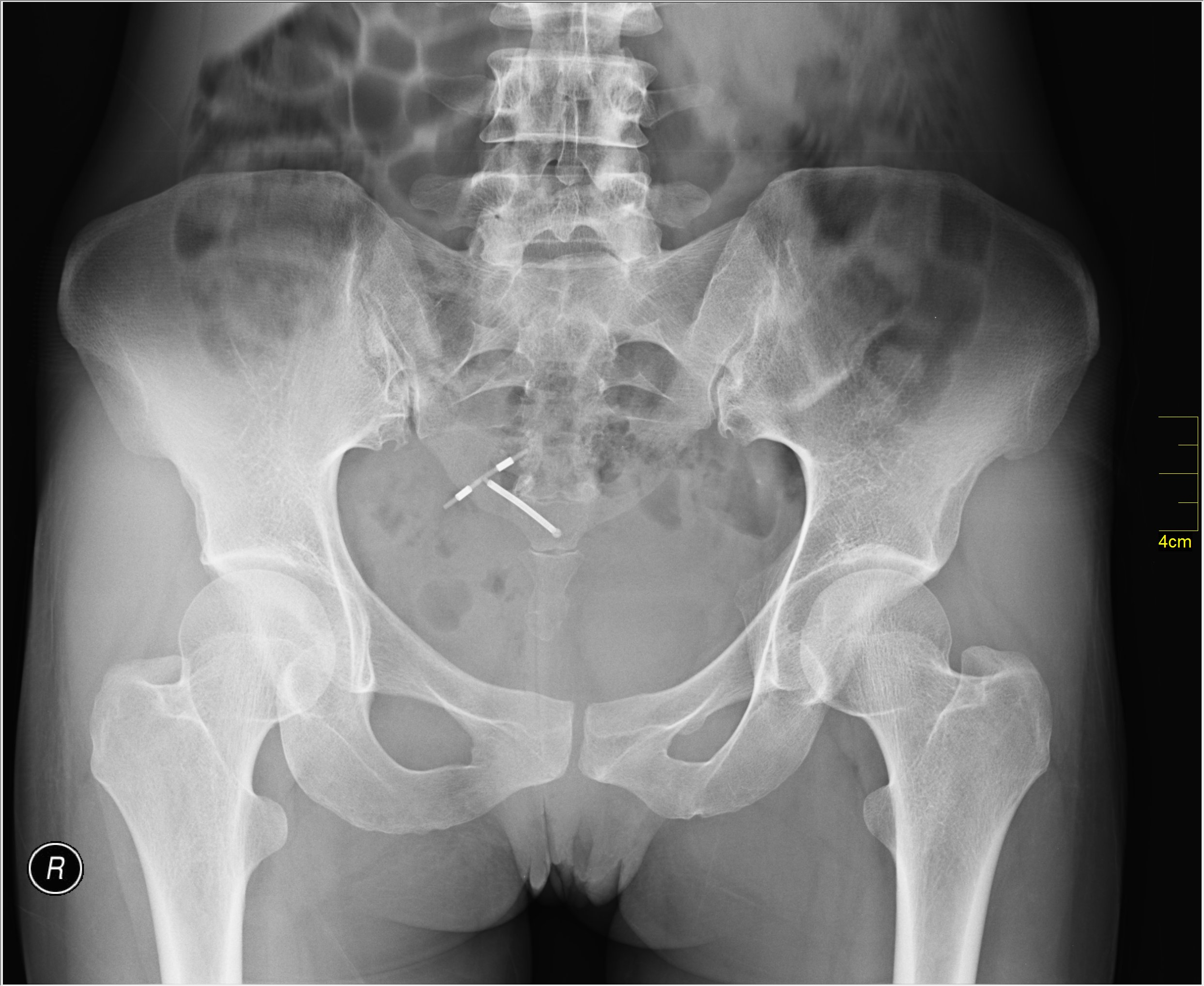 Medical X-rays. Image may not be to scale